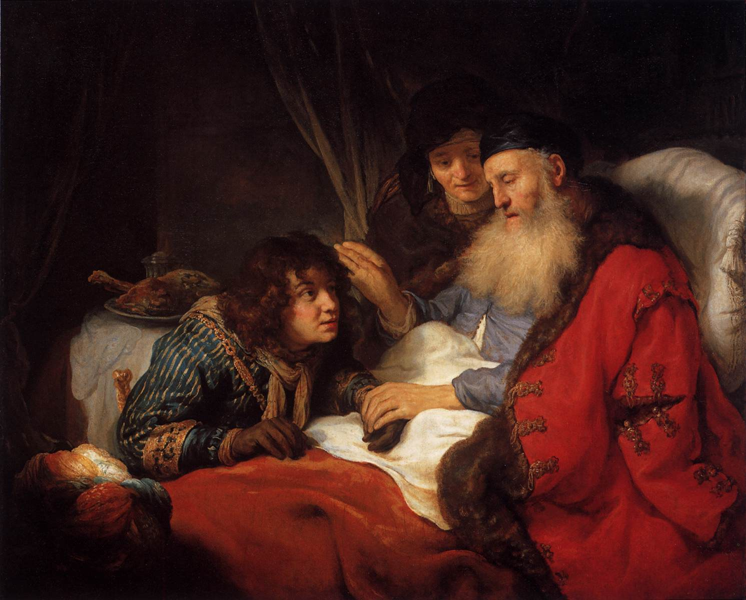 Isaac blessing Jacob. An elderly Isaac sits in his bed and blesses Jacob. To the right of the bed Rebecca is standing.